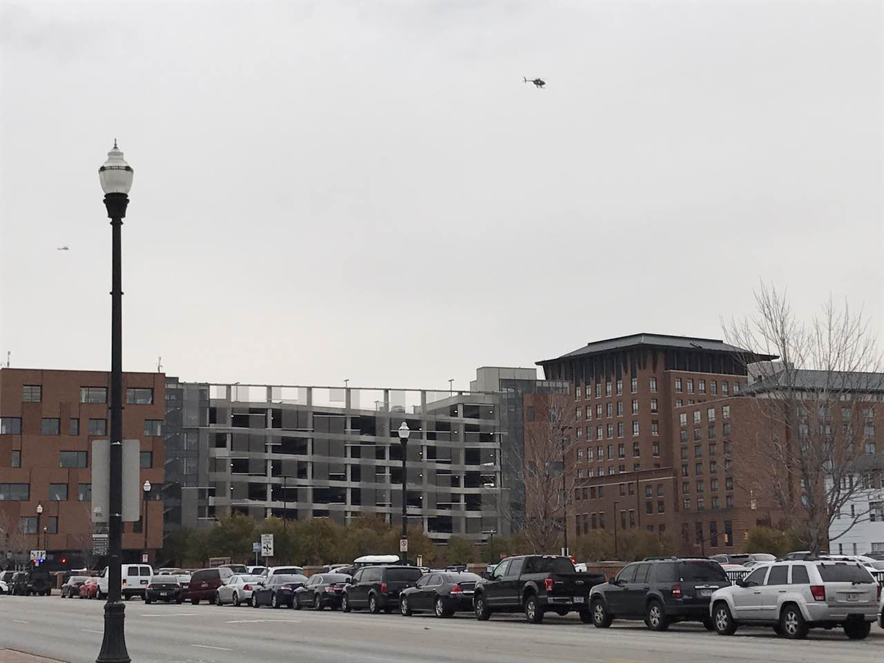 Police Helicopter is patrolling over the Lane Ave Garage